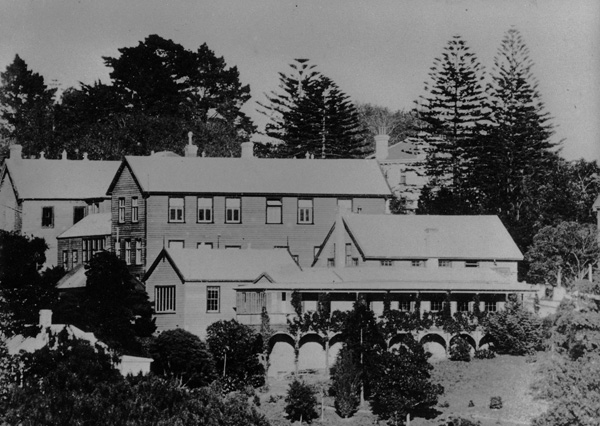 General Assembly House in circa 1900, then part of the University of Auckland.